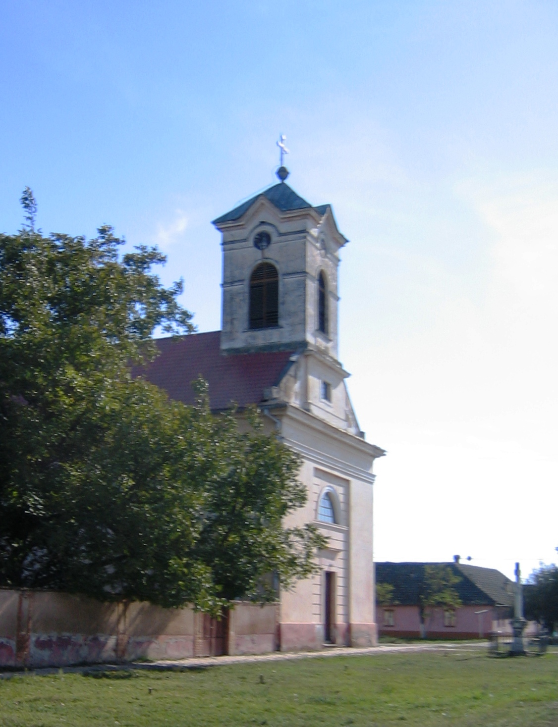 the Roman Catholic Church in Satchinez/Knees, Romania